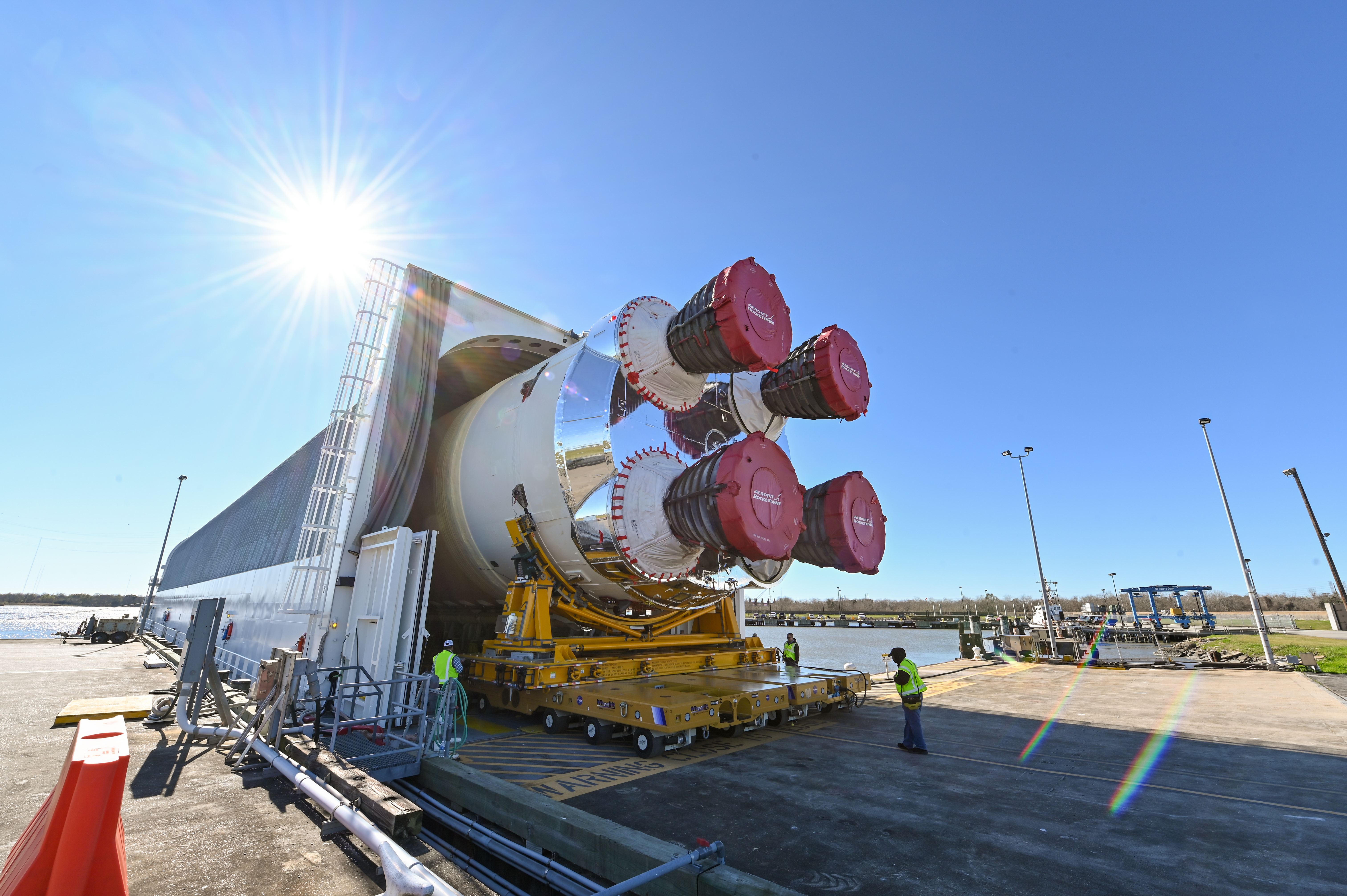 These images show how teams rolled out, or moved, the completed core stage for NASA’s Space Launch System rocket from NASA’s Michoud Assembly Facility in New Orleans. Crews moved the flight hardware for the first Artemis mission to NASA’s Pegasus barge on Jan. 8 in preparation for the core stage Green Run test series at NASA’s Stennis Space Center near Bay St. Louis, Mississippi. Pegasus, which was modified to ferry SLS rocket hardware, will transport the core stage from Michoud to Stennis for the comprehensive core stage Green Run test series. Once at Stennis, the Artemis rocket stage will be loaded into the B-2 Test Stand for the core stage Green Run test series. The comprehensive test campaign will progressively bring the entire core stage, including its avionics and engines, to life for the first time to verify the stage is fit for flight ahead of the launch of Artemis I. Assembly and integration of the core stage and its four RS-25 engines has been a collaborative, multistep process for NASA and its partners Boeing, the core stage lead contractor, and Aerojet Rocketdyne, the RS-25 engines lead contractor. Together with four RS-25 engines, the rocket’s massive 212-foot-tall core stage — the largest stage NASA has ever built — and its twin solid rocket boosters will produce 8.8 million pounds of thrust to send NASA’s Orion spacecraft, astronauts and supplies beyond Earth’s orbit to the Moon and, ultimately, Mars. Offering more payload mass, volume capability and energy to speed missions through space, the SLS rocket, along with NASA’s Gateway in lunar orbit and Orion, is part of NASA’s backbone for deep space exploration and the Artemis lunar program.